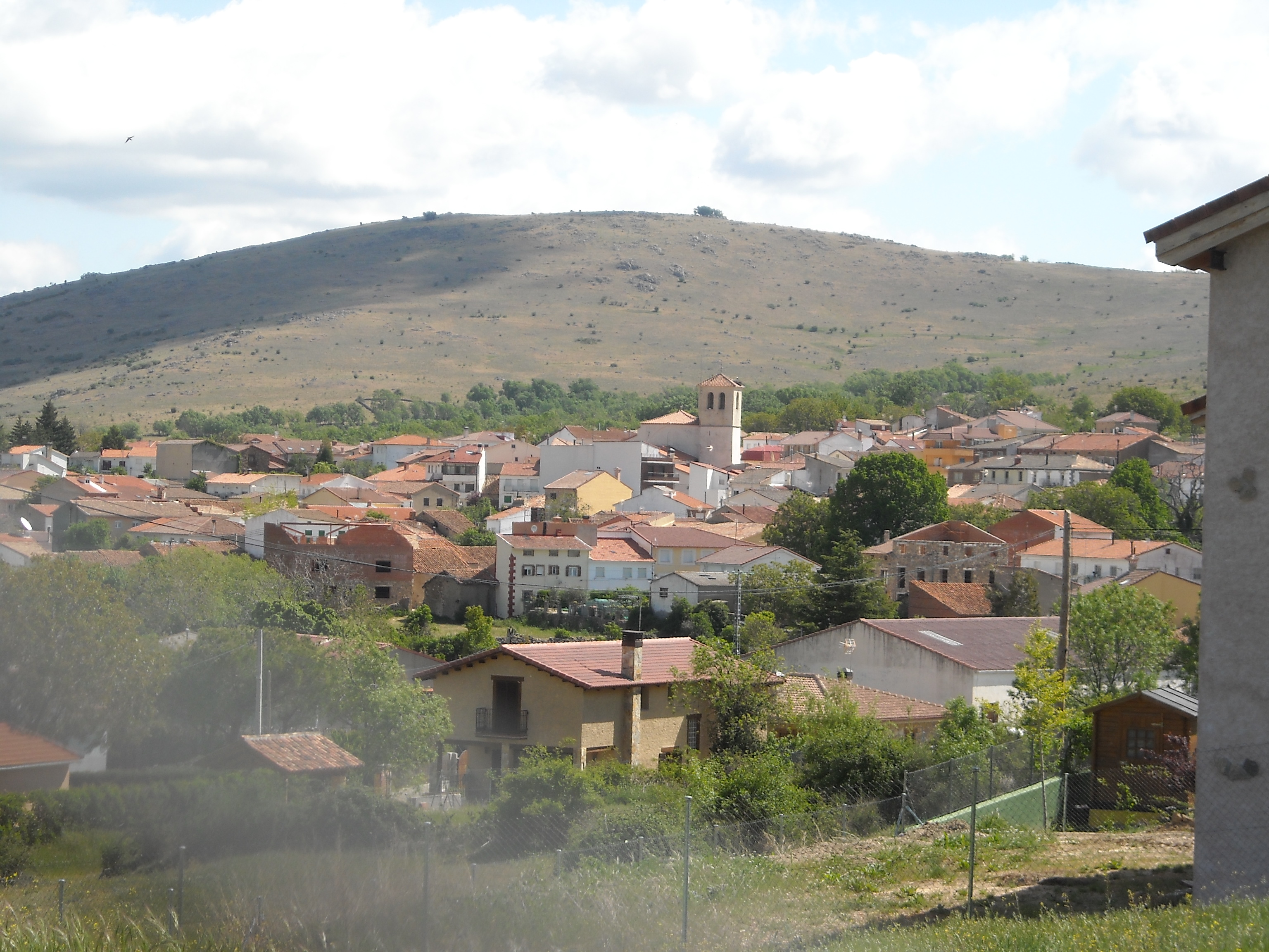 View of Canencia, Madrid, Spain